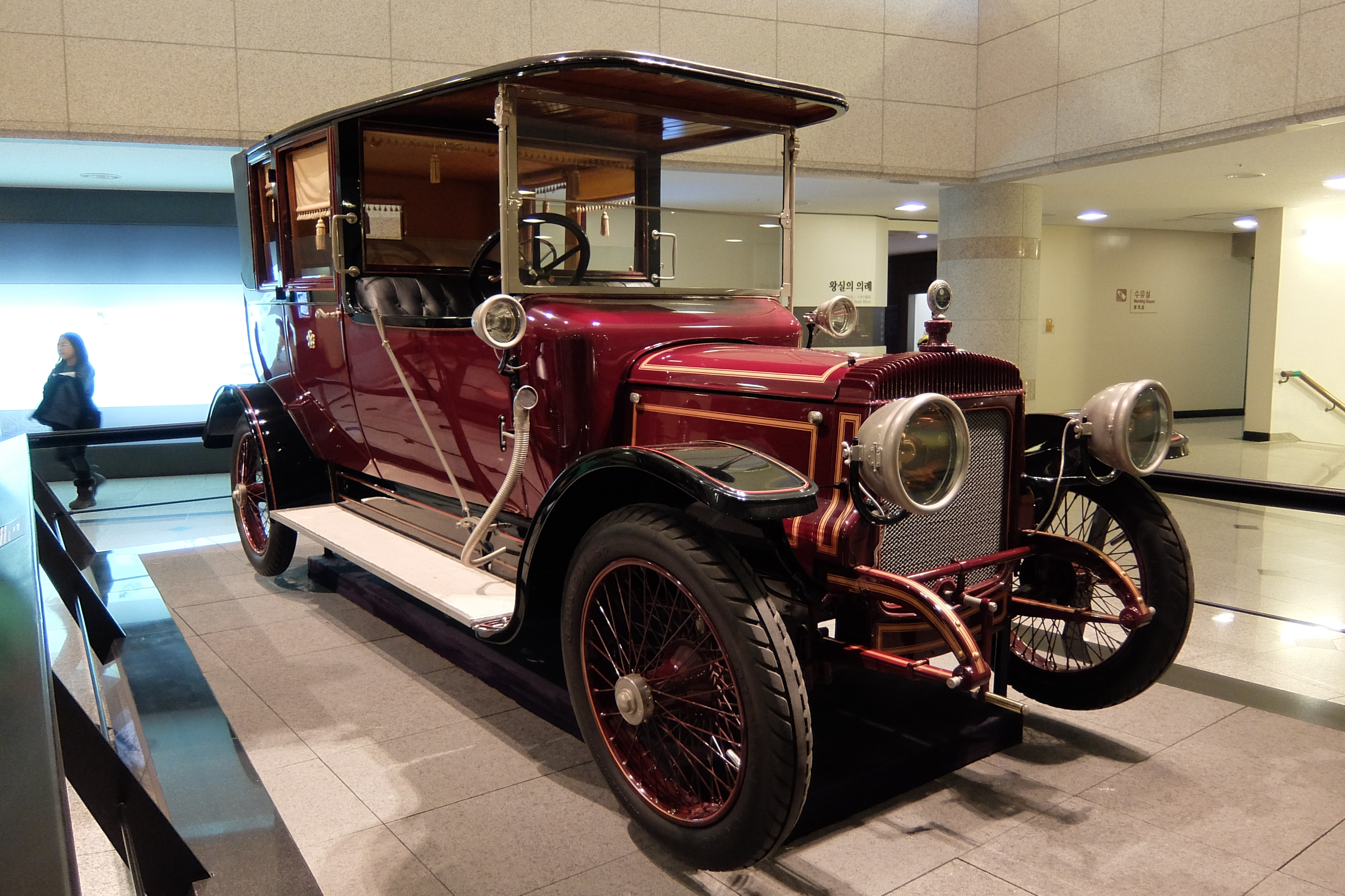 Limousine used by Empress Sunjeong(1894~1966), 1914 model of Daimler, UK. Located in National Palace Museum of Korea, Seoul.